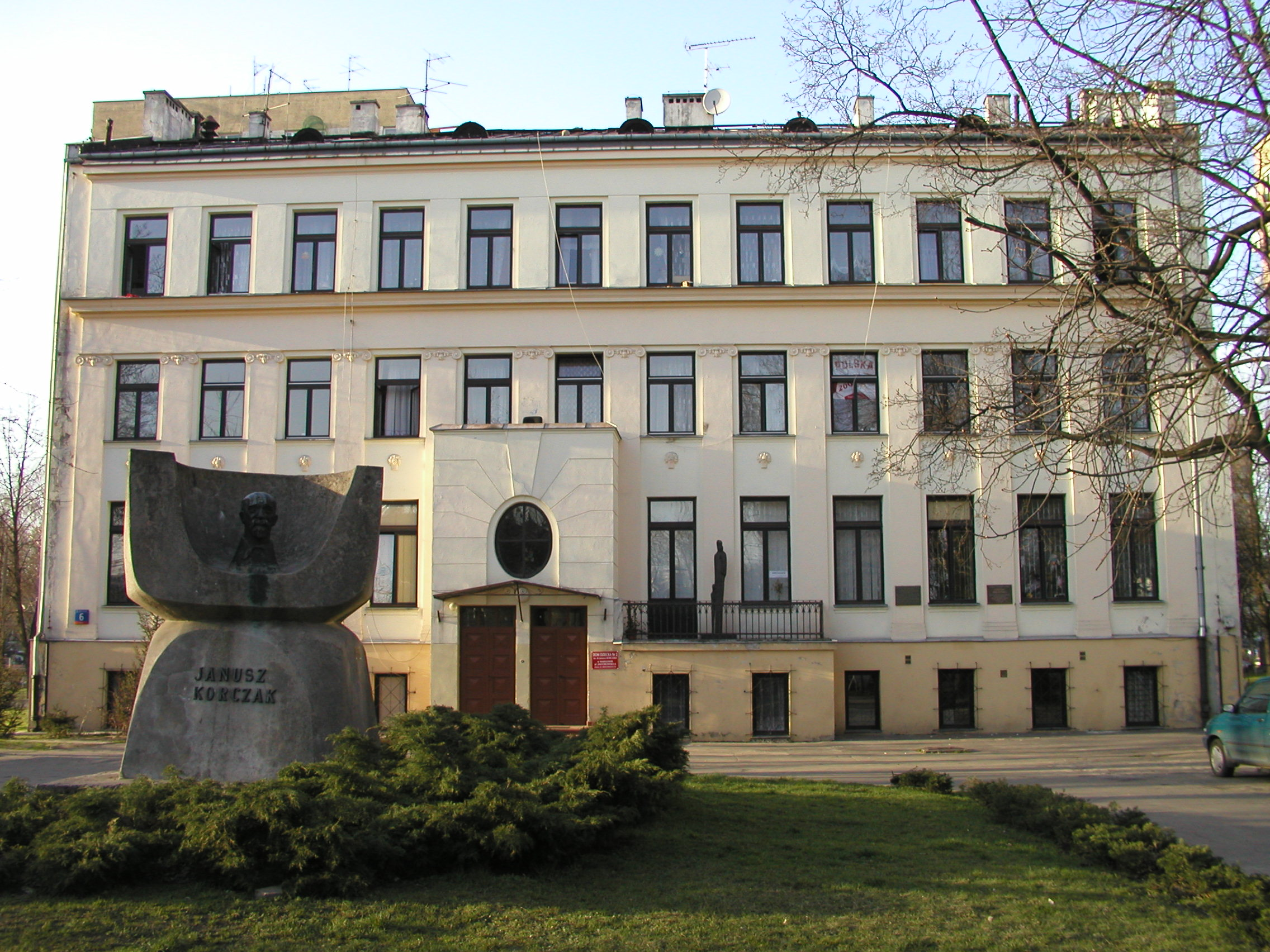 Korczak's orphanage is still in operation today